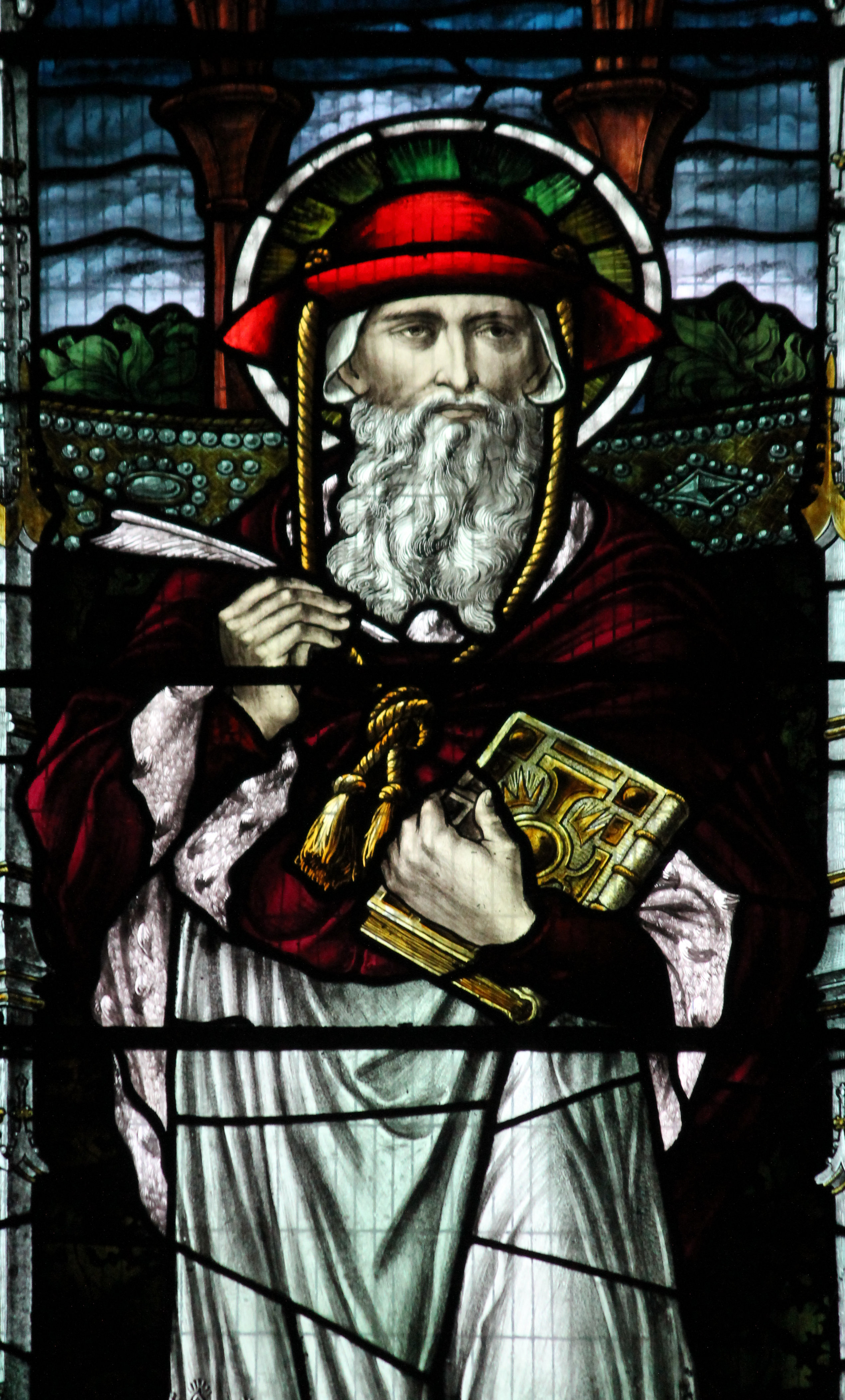 1-Window at St Padarn's Church, Llanberis showing Saint Peris.